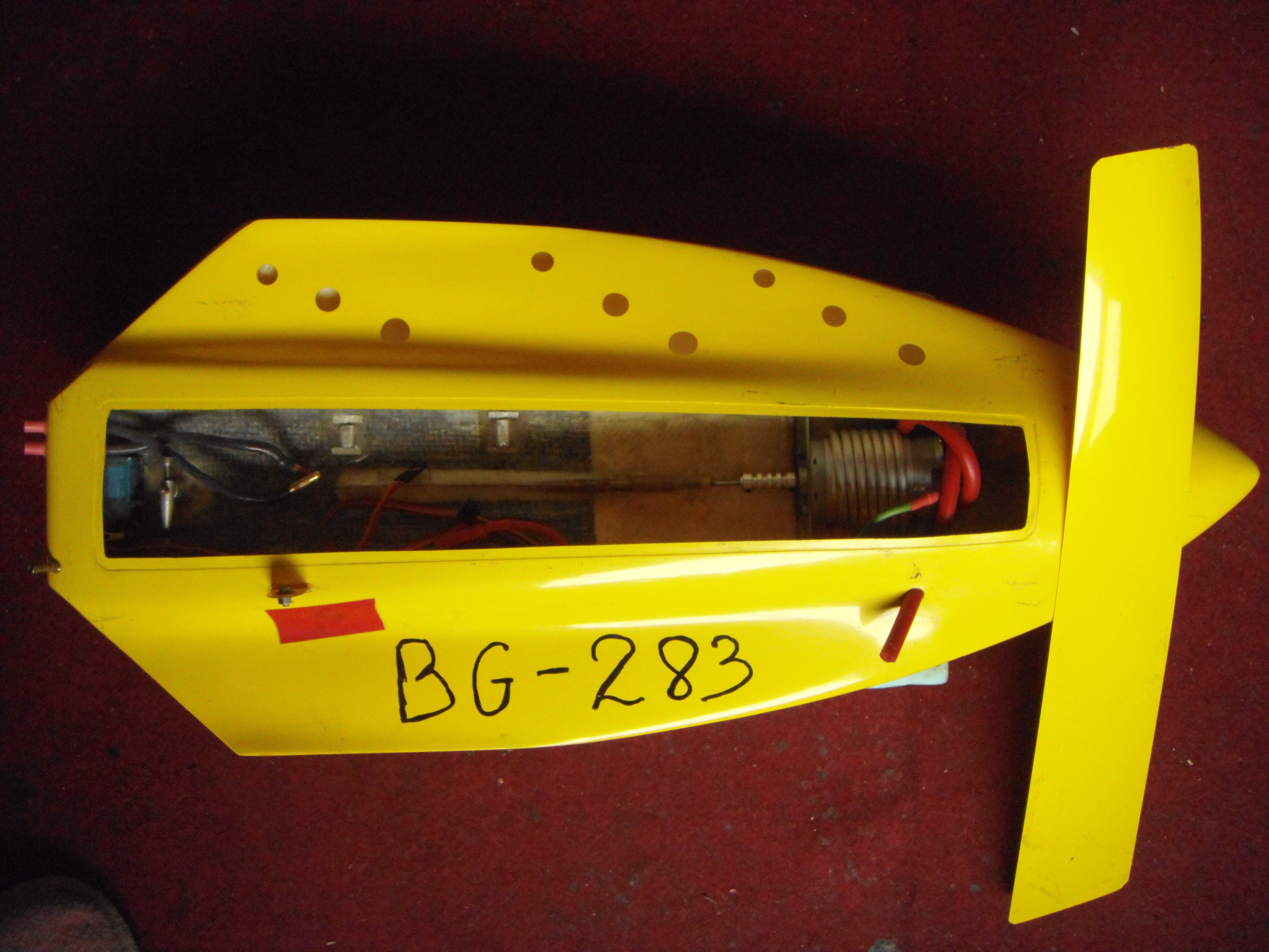 This is a speed ship model, used in sport, named ship modeling. Races in classes: ECO-Expert, ECO-Standart, ECO-Start, ЕCO-Team.